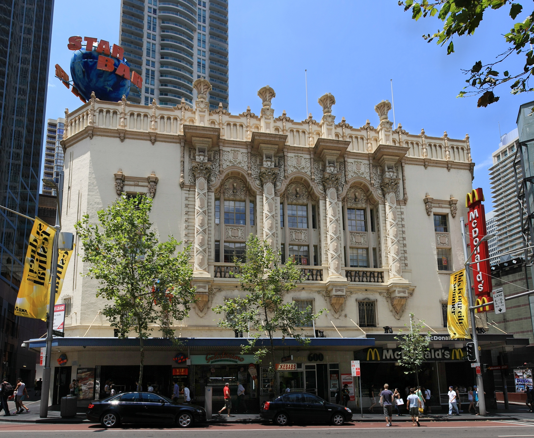 Star Bar George Street, Sydney, in the former Plaza Cinema, now a McDonald's restaurant as of 2013